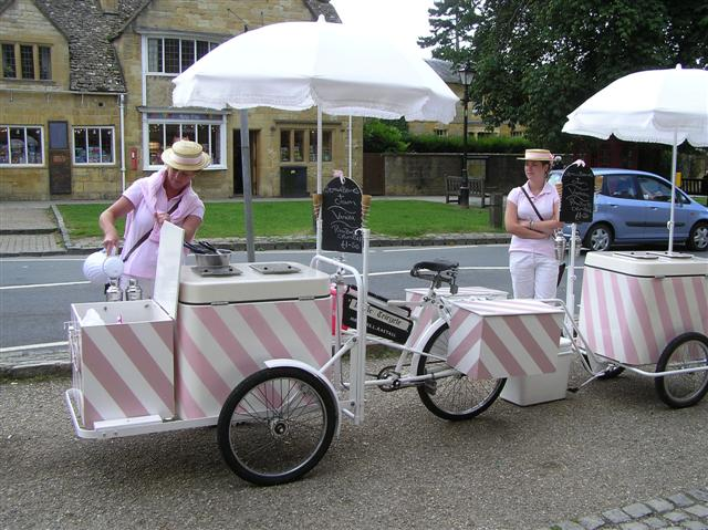 Anyone for an ice cream? Pictured along High Street, Broadway